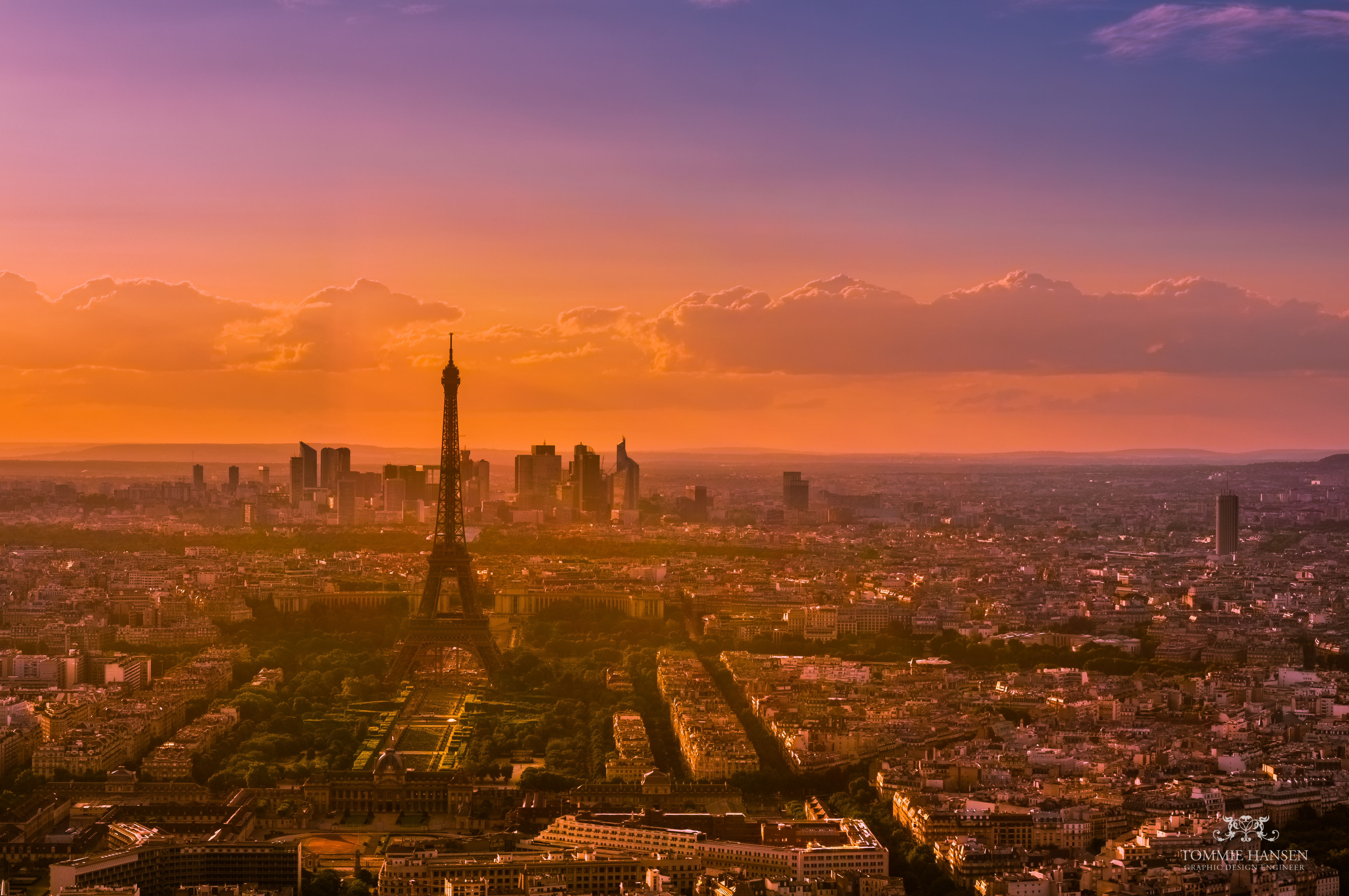 Paris seen from the Tour Montparnasse.